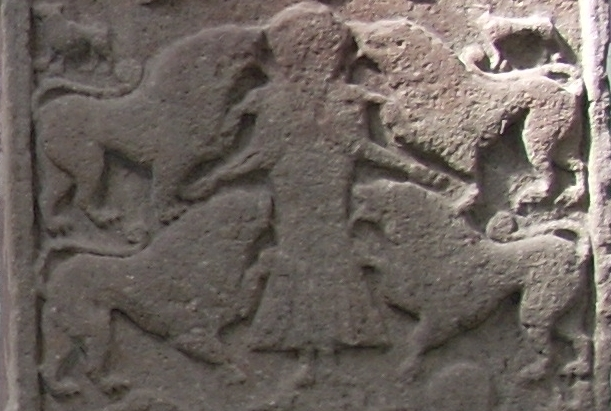 Vanora, wife of King Arthur, being fed to wild beasts as punishment for her infidelity. From Meigle 2 Pictish stone, in the Meigle Sculptured Stone Museum in Scotland.